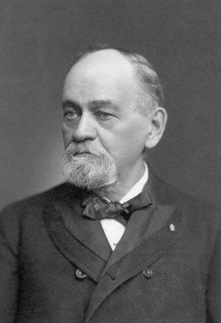 John Sargent Pillsbury (1828-1901)